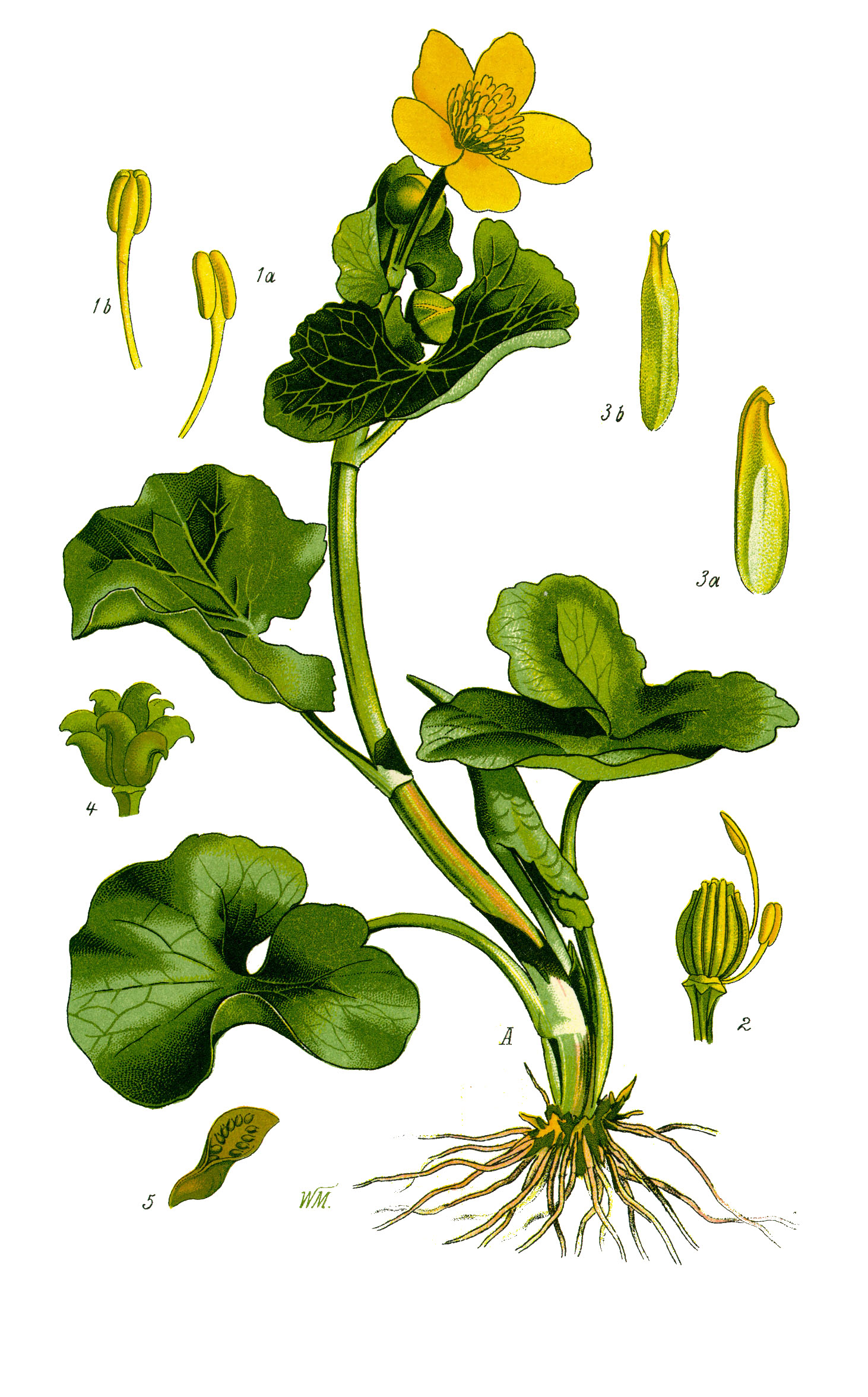 Name Caltha palustris Family Ranunculaceae